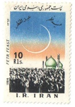 1984 "Fetr Feast" stamp of Iran